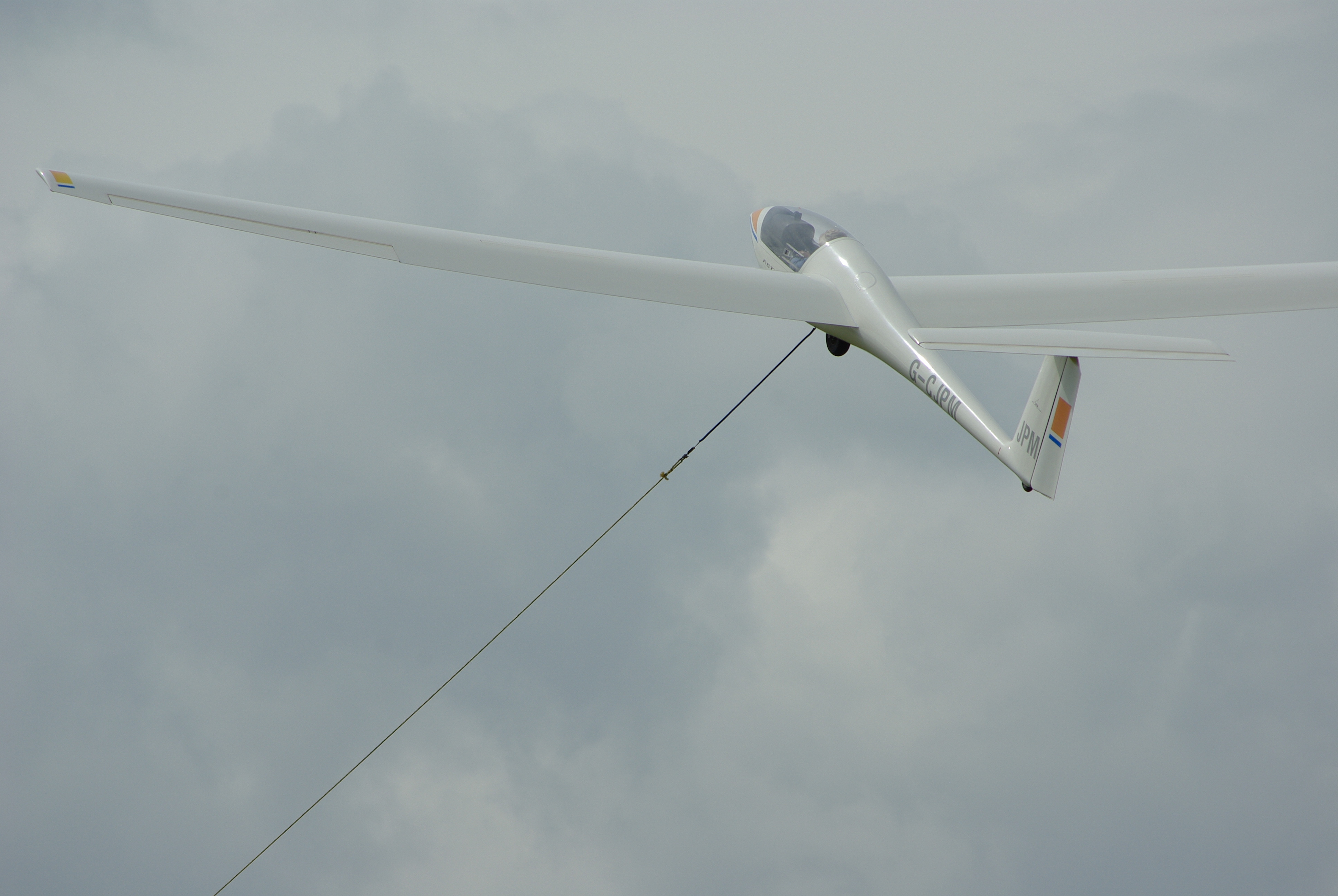 Grob G102 Astir G-CJPM at the Vintage Glider Rally, Camphill 24 June 2011